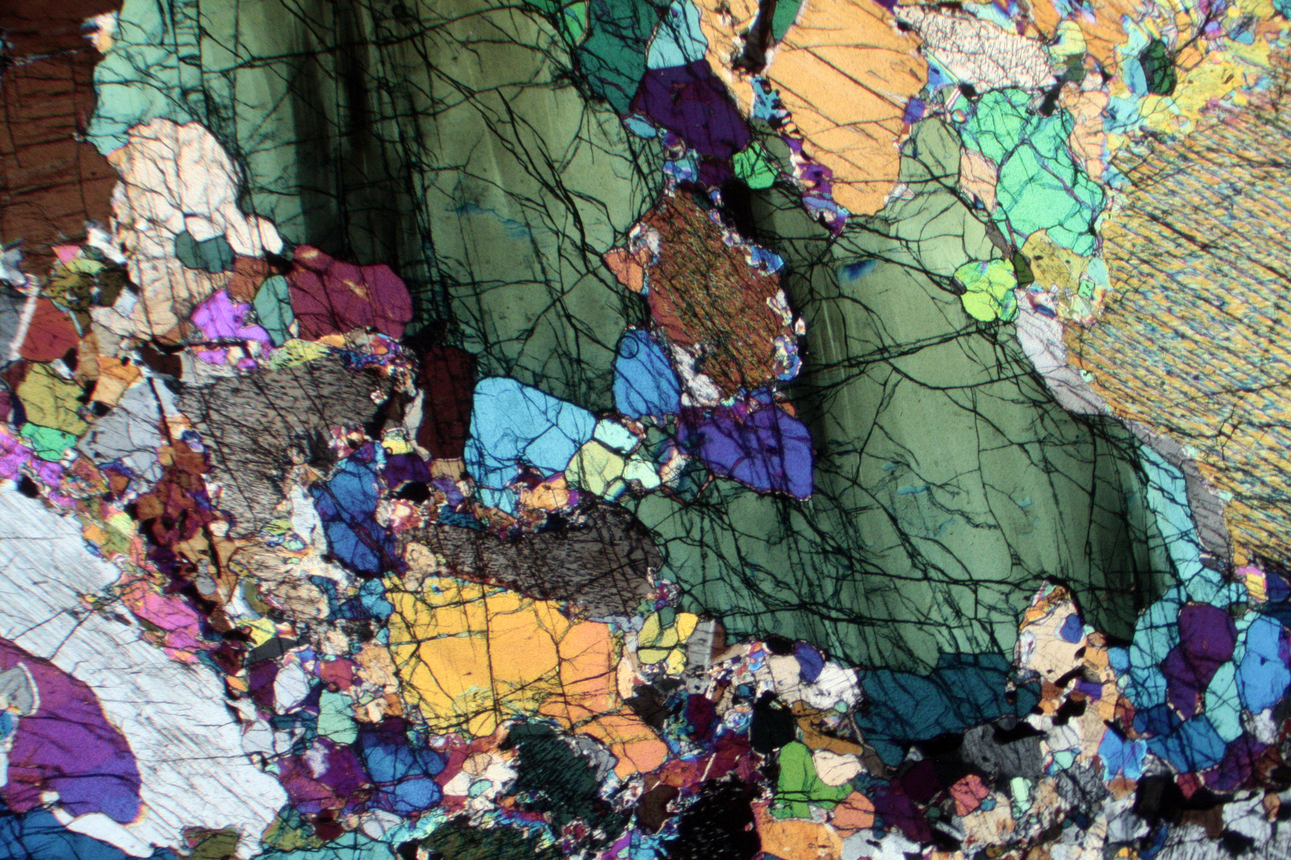 Wherlite. A wehrlite is an ultrabasic igneous rock dominated by essential olivine and clinopyroxene with or without small amounts of orthopyroxene. Crossed nicols image, magnification 2x (Field of view = 7mm)